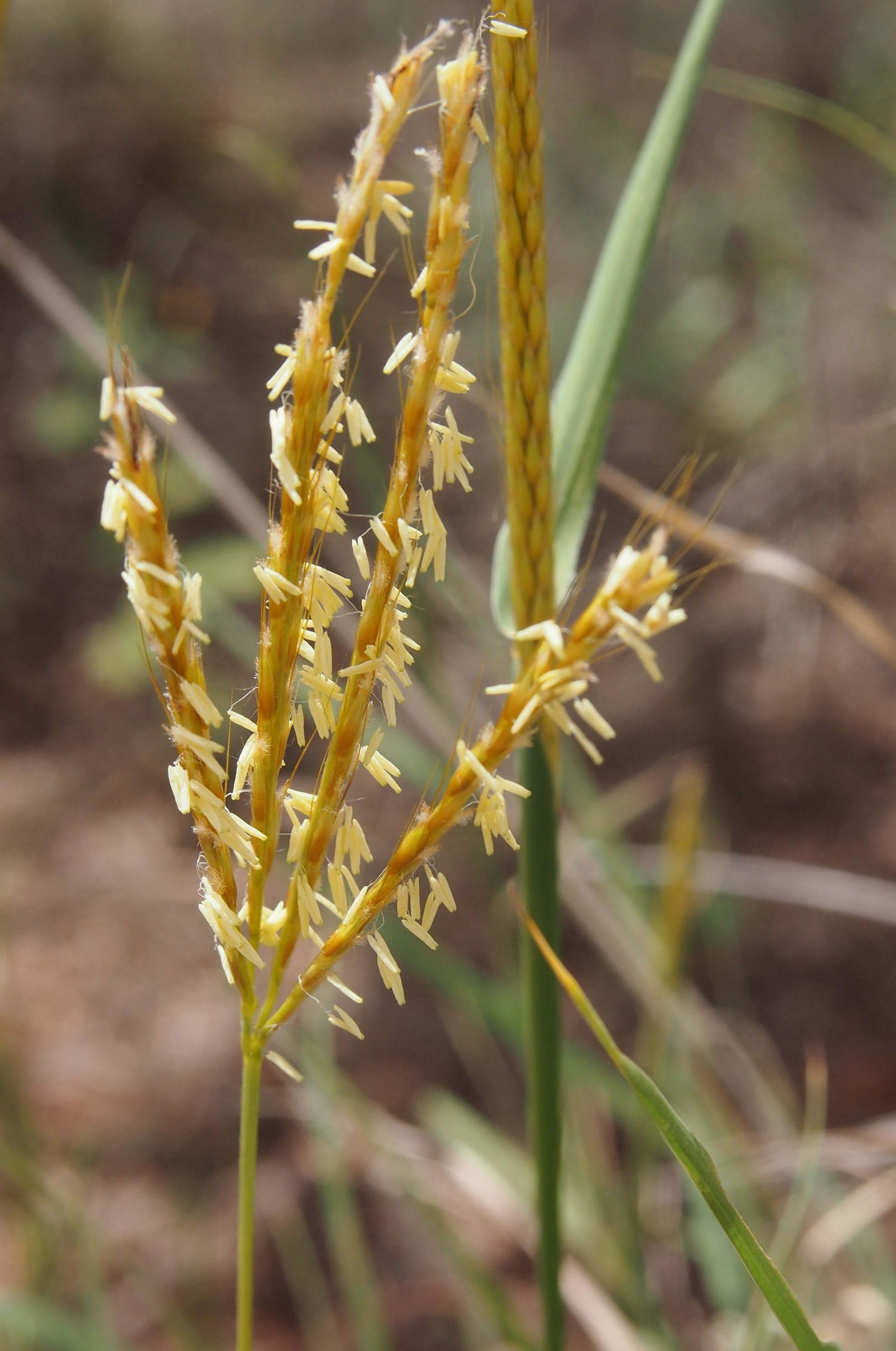 Bothriochloa ewartiana flower